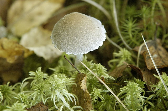 Psathyrella artemisiae from Commanster, Belgium. The determination of the species shown in this picture has been verified.